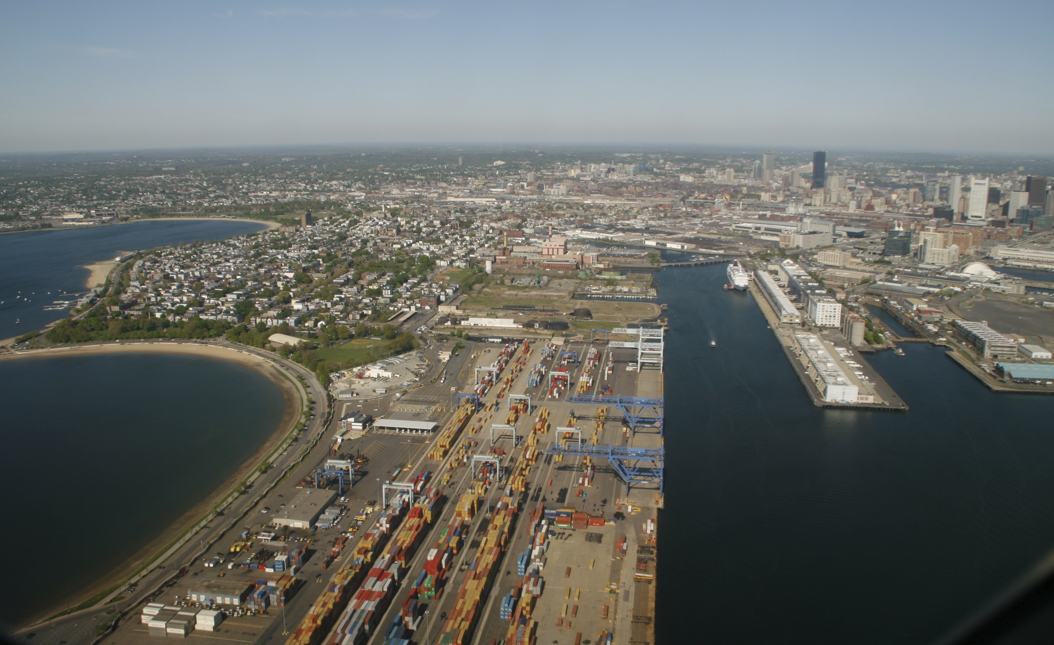 Boston skyline, on departure. Looking up the Conley Terminal container yards. Reserved Channel and Dry Dock number 3 is on the right. Pleasure Bay is on the left.